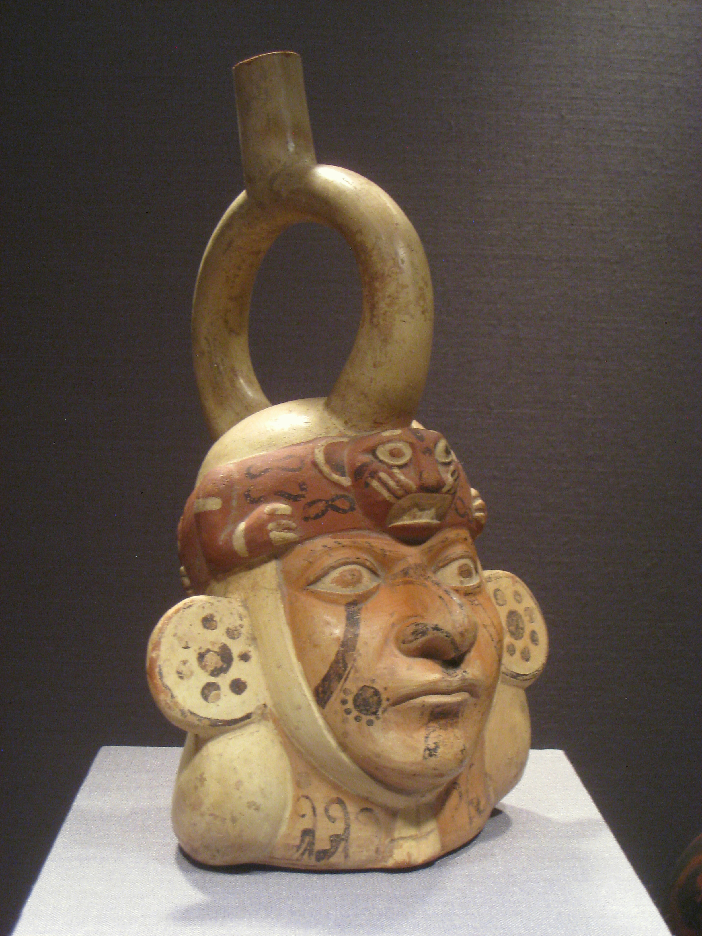 Portrait Vessel, Peru north coast, Moche culture, 100-500 AD, ceramic, Pre-Columbian collection in the Worcester Art Museum, Worcester, Massachusetts, USA. The museum permits photography and does not restrict usage of the photographs.